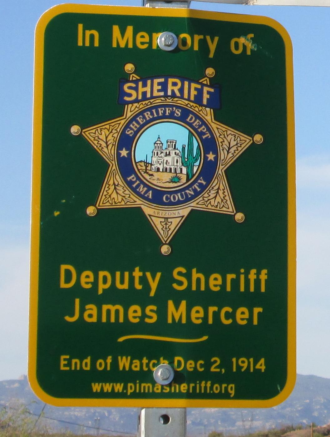 A small memorial sign at the Cienega Creek Natural Preserve in Pima County, Arizona, for the County Ranger James Arthur Mercer (1871-1914), who was mortally wounded by a suspected cattle rustler near the town of Pantano on December 2, 1914.